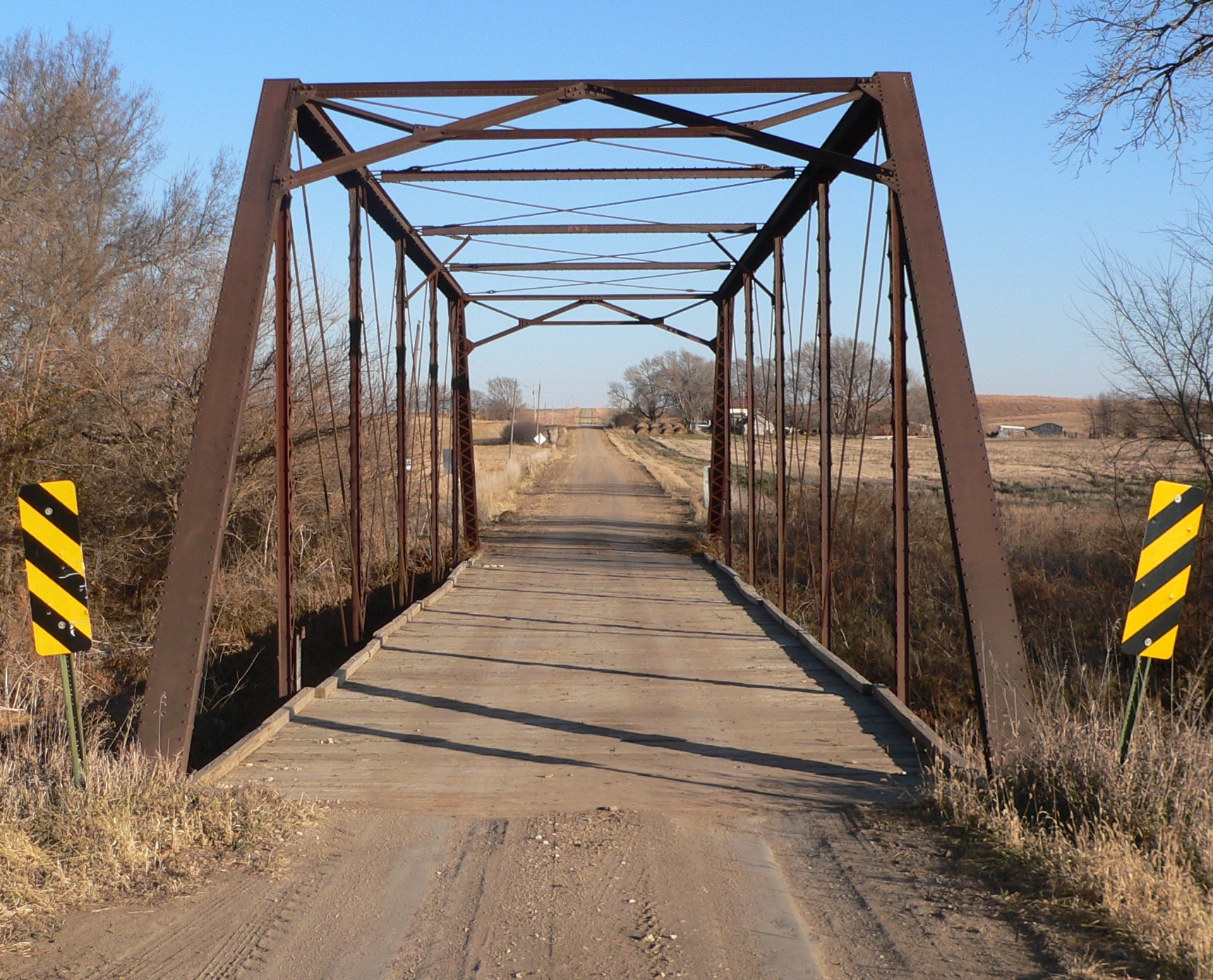 East Riley Creek Bridge, carrying county road Queen across a creek south of Belleville in Republic County, Kansas. The bridge was built in 1899, and is listed in the National Register of Historic Places. Seen from west.